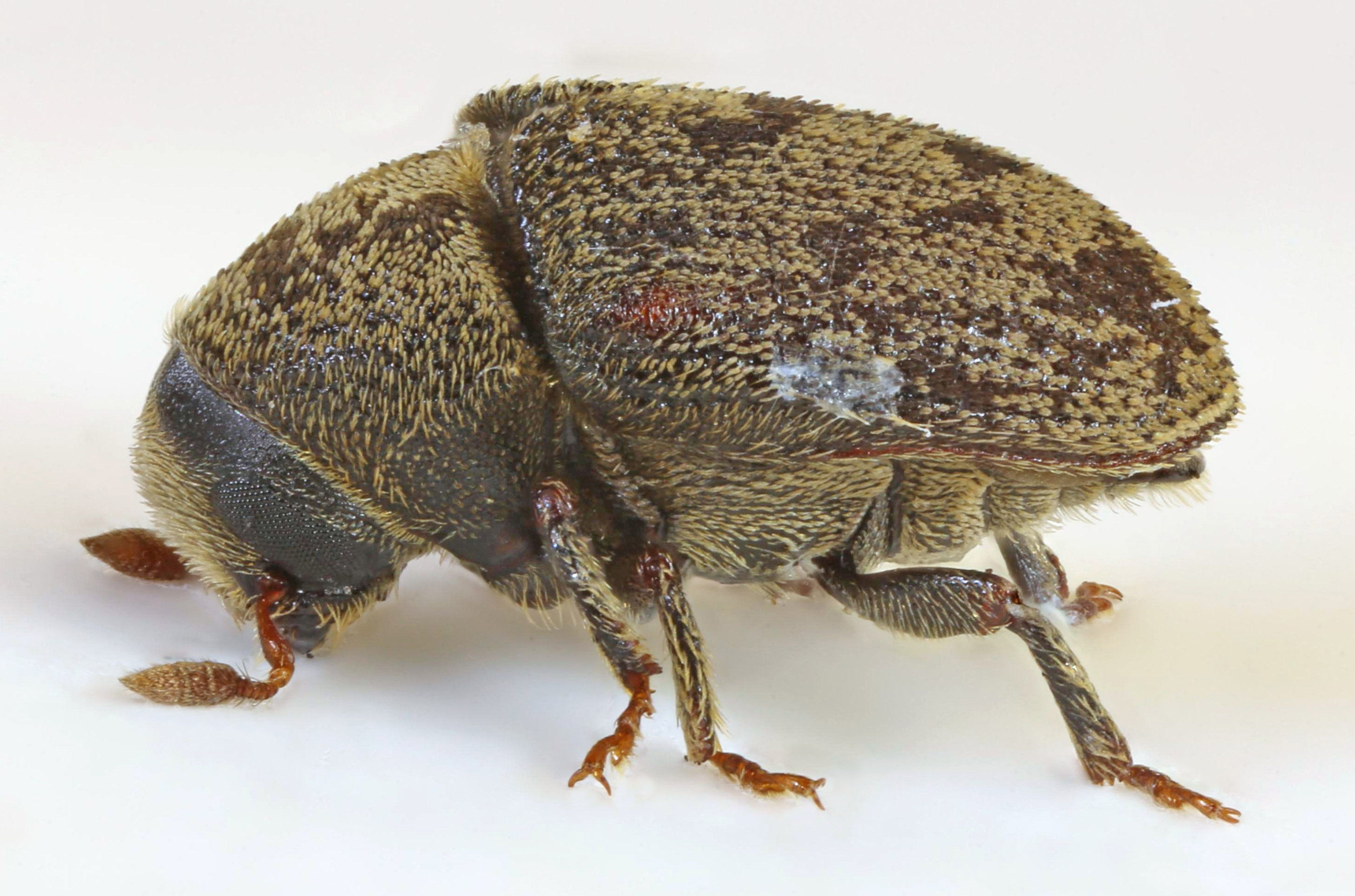 Hylesinus varius, Minera, North Wales, May 2017